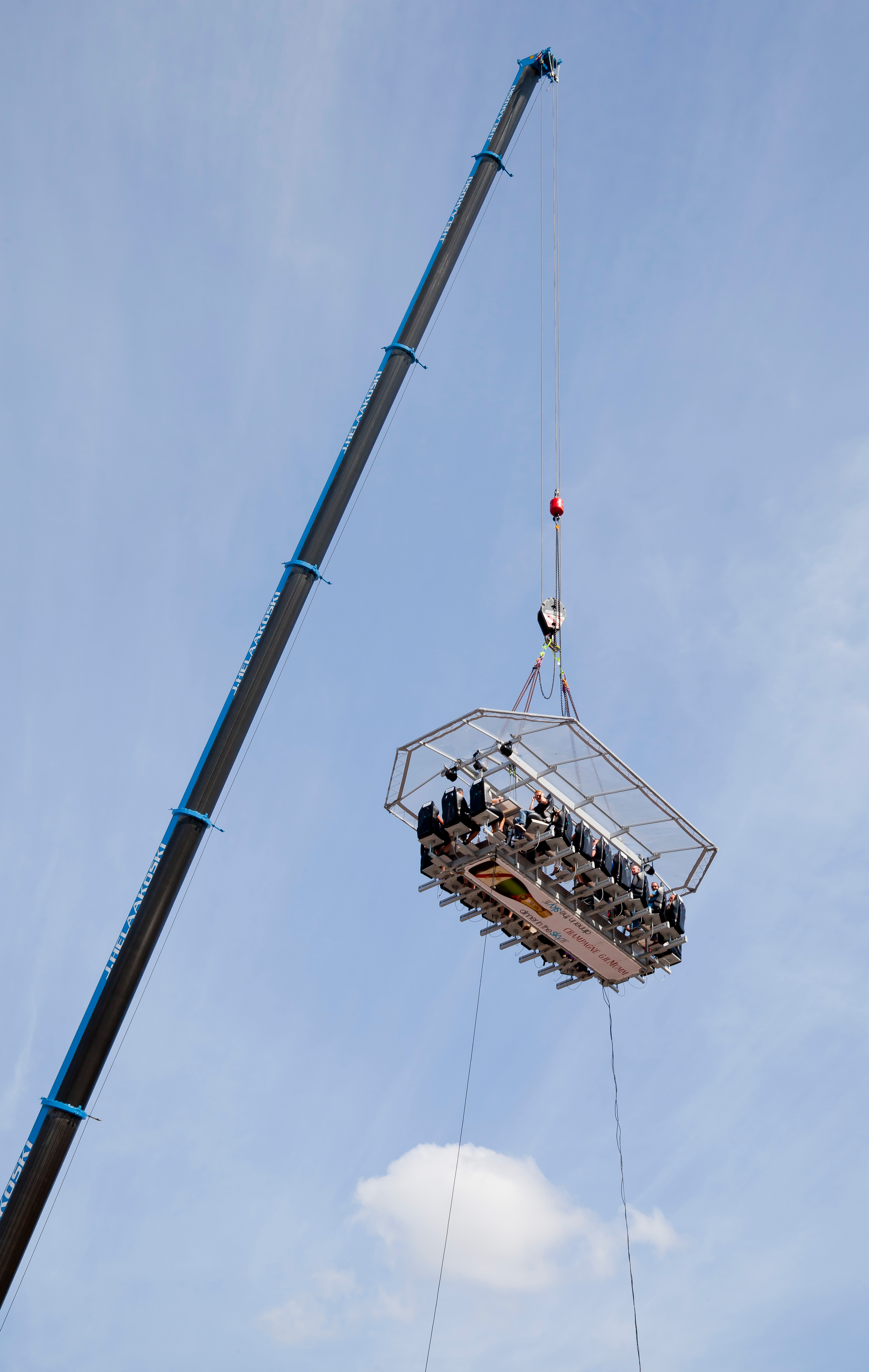 Flying restaurant, Helsinki, Finland